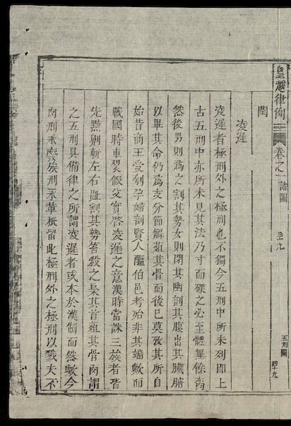 Slow Slicing in Gia Long Code, Nguyen Dynasty of Vietnam